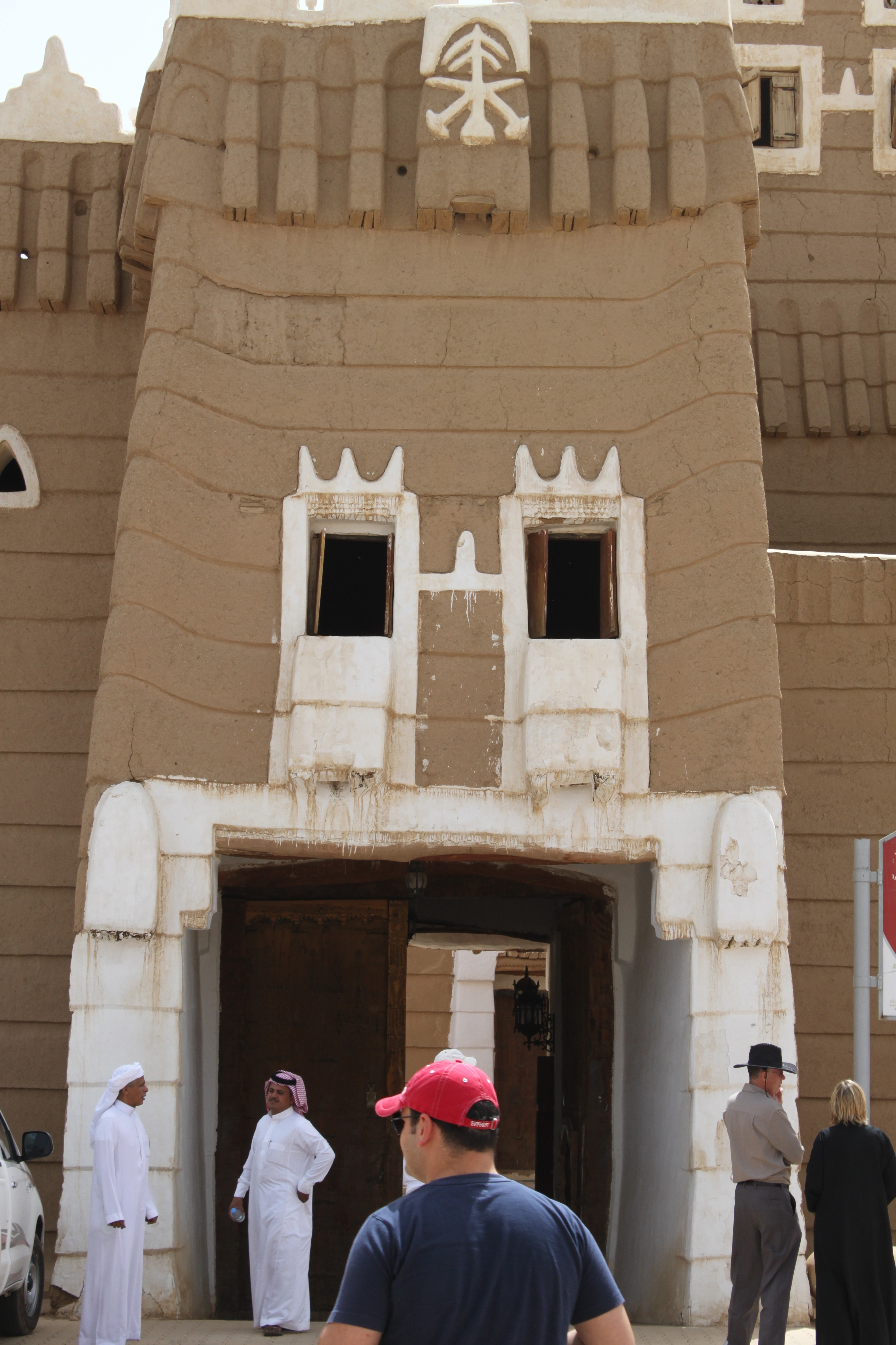 Entrance to the governors palace in Najran.